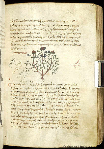 Pierpont Morgan Library. Manuscript. M.652., "Morgan Dioscurides" Folio 030r, Flower: Peony. Published/Created: Constantinople, mid 10th cent.. Description: 1 miniature, column : painting, on vellum.